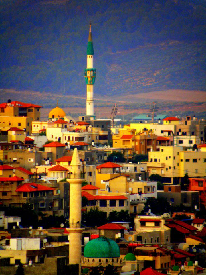 Cities in Israel